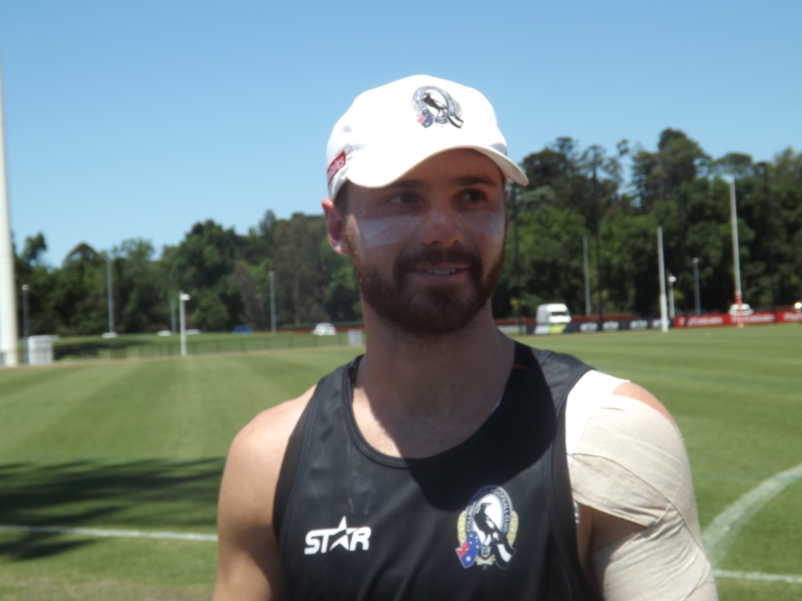 Ben Sinclair signs autographs during a Collingwood open training session at Olympic Park, Melbourne.